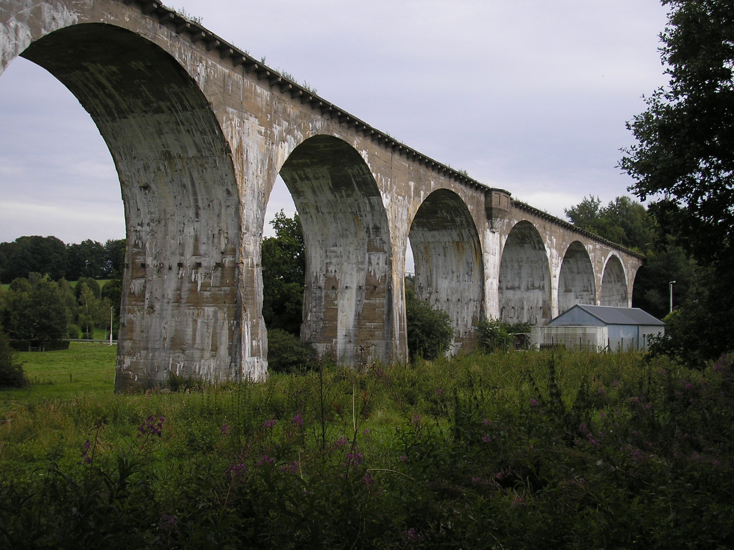 Railwayviadukt Amel-Born, East Belgium, I. Worldwar 1916